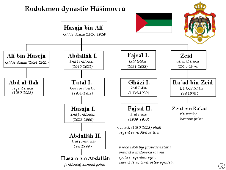 Family tree of Hashemites (in Czech)